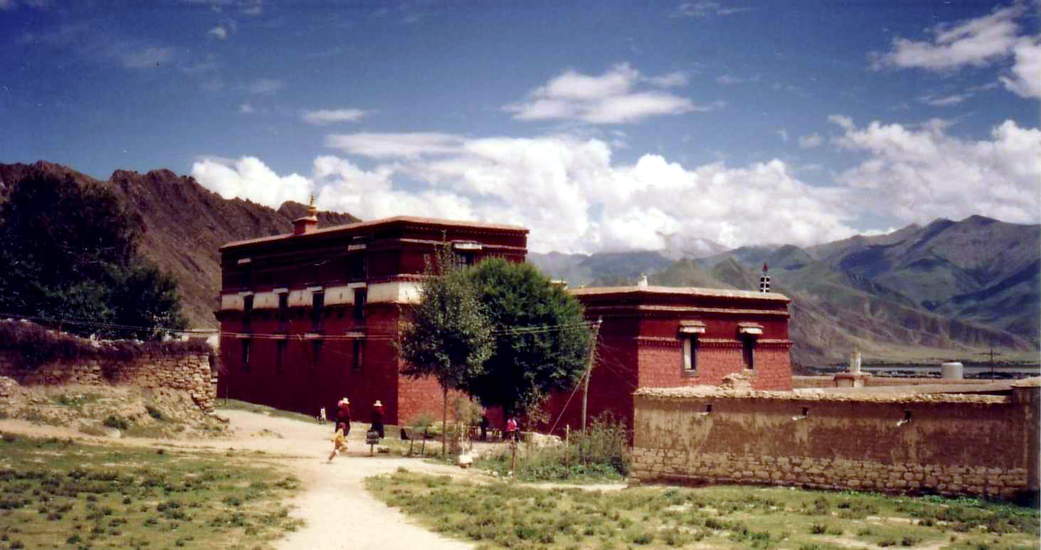 I took this photo in 1993. John E. Hill 05:14, 1 February 2007 (UTC)